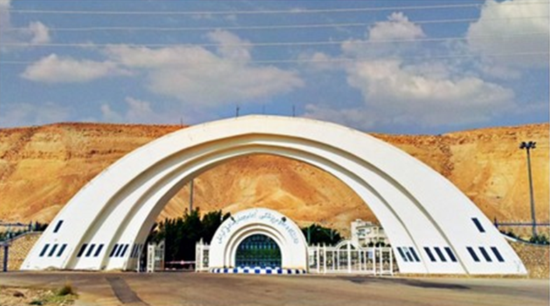 cut from [2]